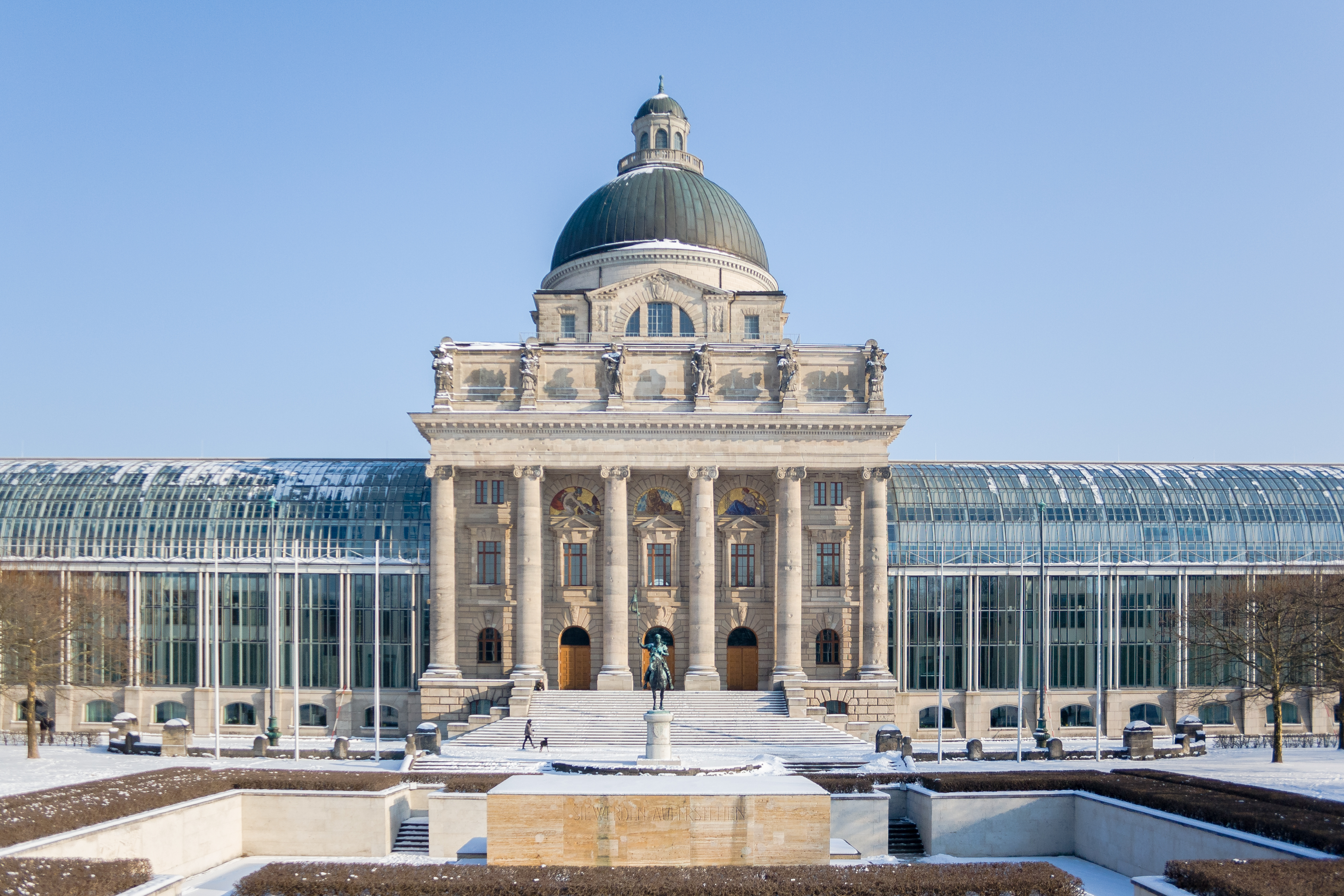 Bavarian State Office, Munich, Germany